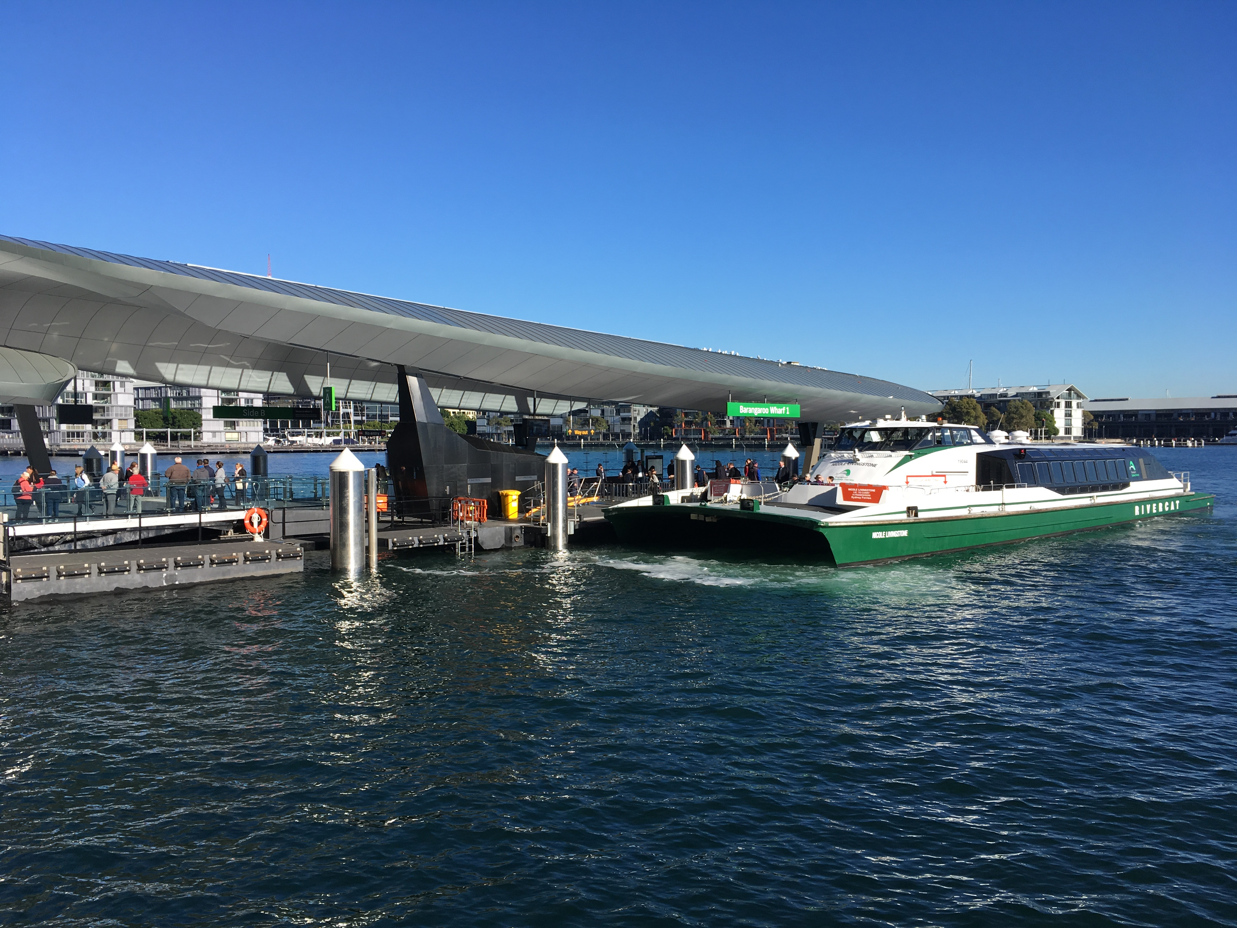 View of the Nicole Livingstone berthed at Side A at wharf 1 of the Barangaroo ferry wharf, taken on the morning of the wharf's opening day, 26 June 2017. The Nicole Livingstone is one of many Sydney RiverCats operating the F3 Parramatta River service, which was rerouted to Barangaroo from the Darling Harbour ferry wharf when the former opened and the latter was decommissioned as a result.